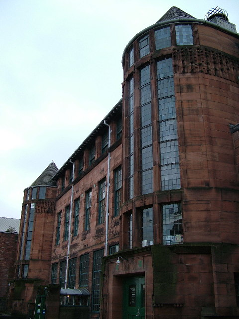 Scotland Street School. Scotland Street School was designed by Charles Rennie Mackintosh and built 1903-6. It is now a museum specialising in the history of education in Scotland.